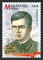 The beginning of the Great Patriotic War. The defence of Brest fortress. A. M. Kizhevatov.